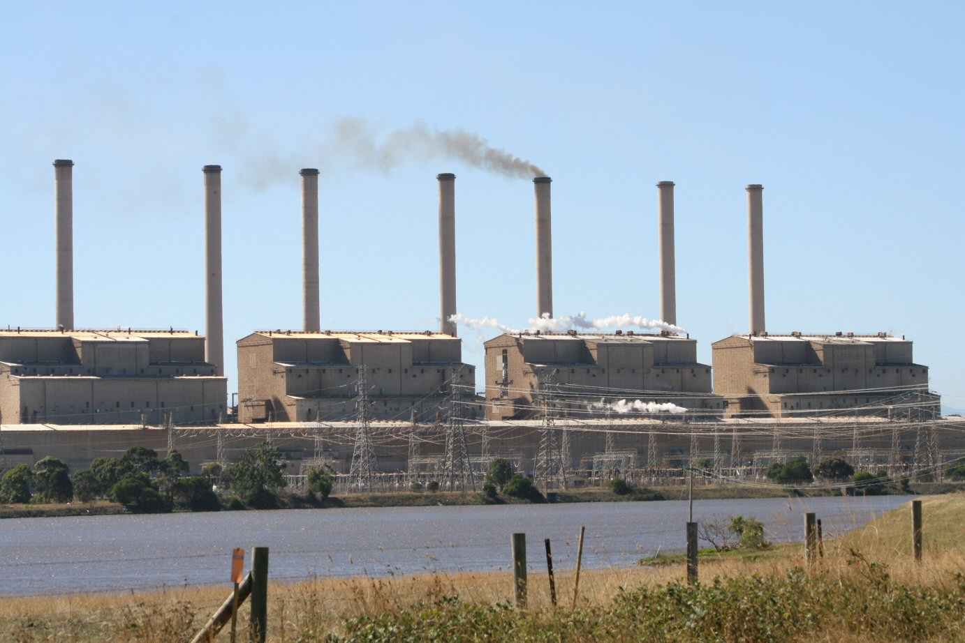 Photo of the Hazelwood Power Station (and Hazelwood Power Station substation in front) in the Latrobe Valley, Victoria Australia. One of the Electrostatic precipitators has been taken offline, resulting in the brown smoke.